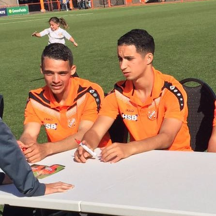 Daniël van Son and Rafik El Hamdi at the open day of FC Volendam in 2016.